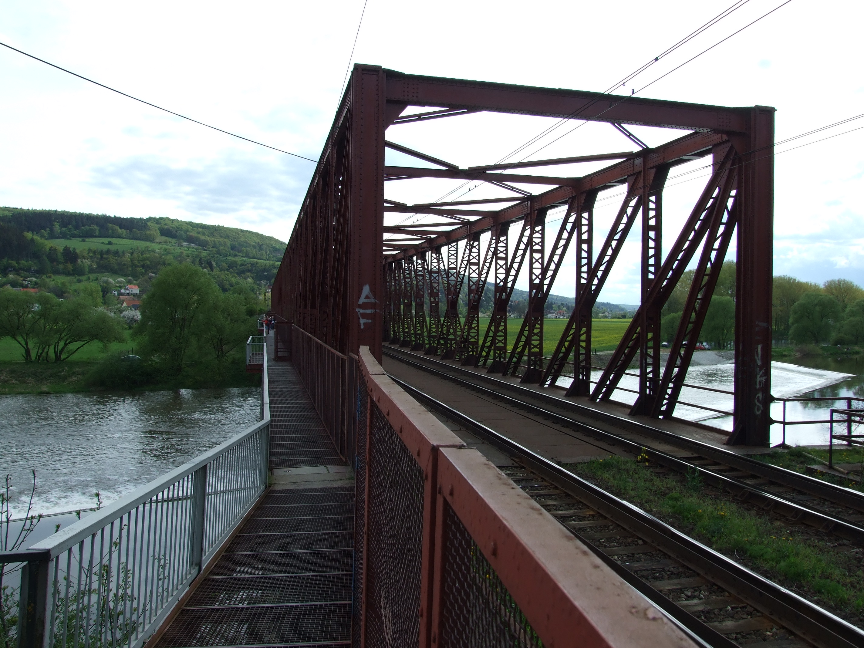 Rail bridge over Berounka on track from Prague to Beroun, Czech republichelp